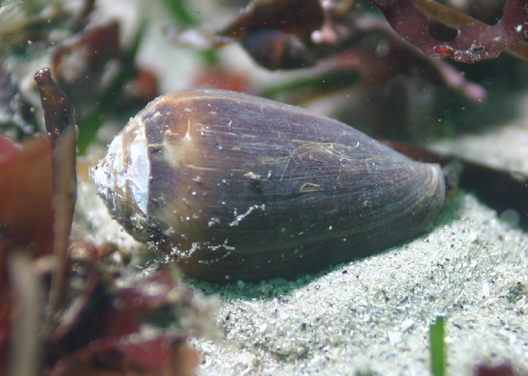 The California cone snail Californiconus californicus uses venom to disable prey. Most cone snails are found in the tropics.